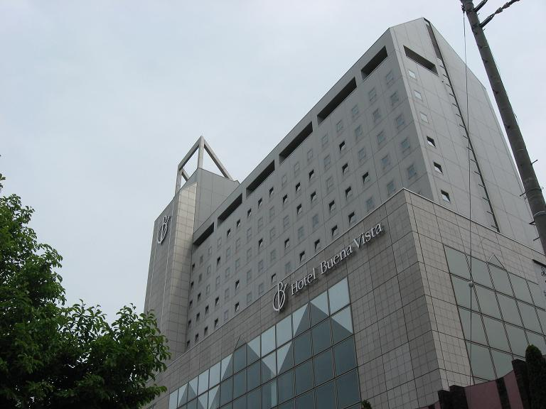 Hotel Buena Vista. Hotel in Matsumoto,Japan., Matsumoto.